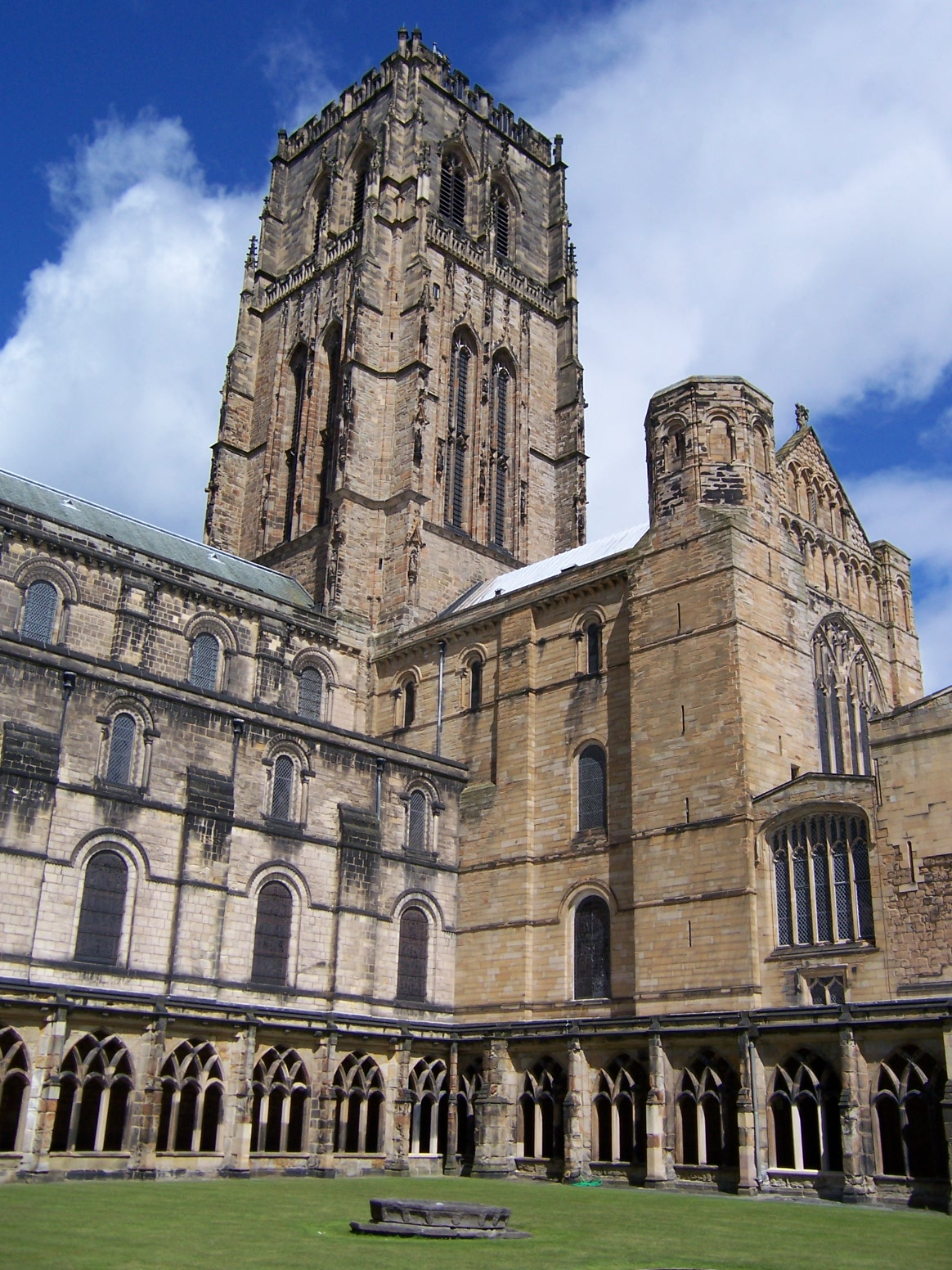 Cloister of Durham Cathedral (Durham, England) own work; photo taken on 28 May 2006